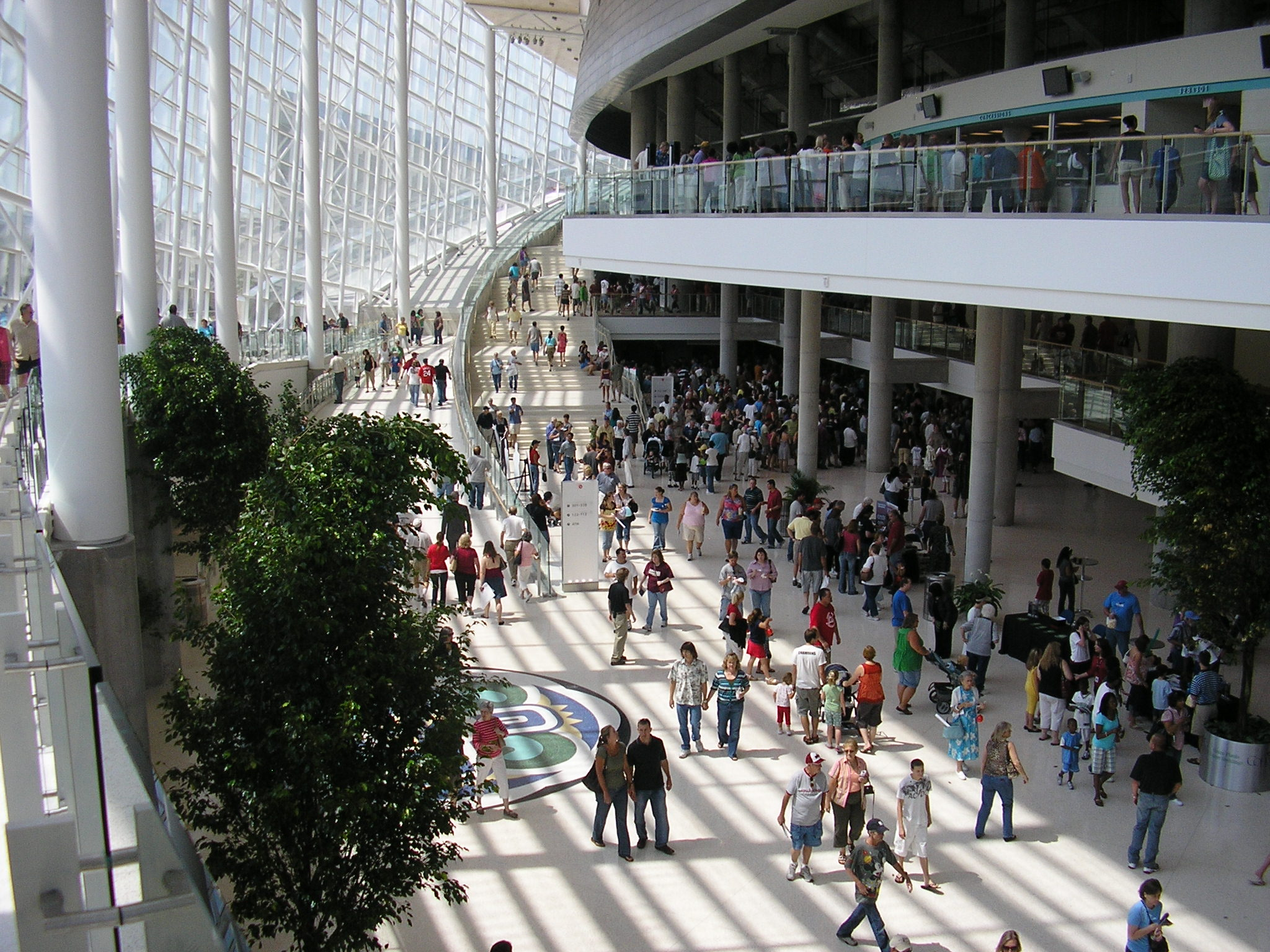 Inside the BOK Center